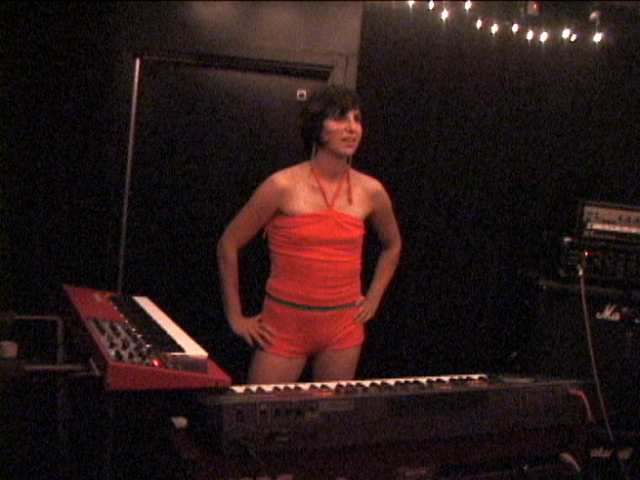 Bex, of the group Von Iva, performing live at Cake Shop NYC.